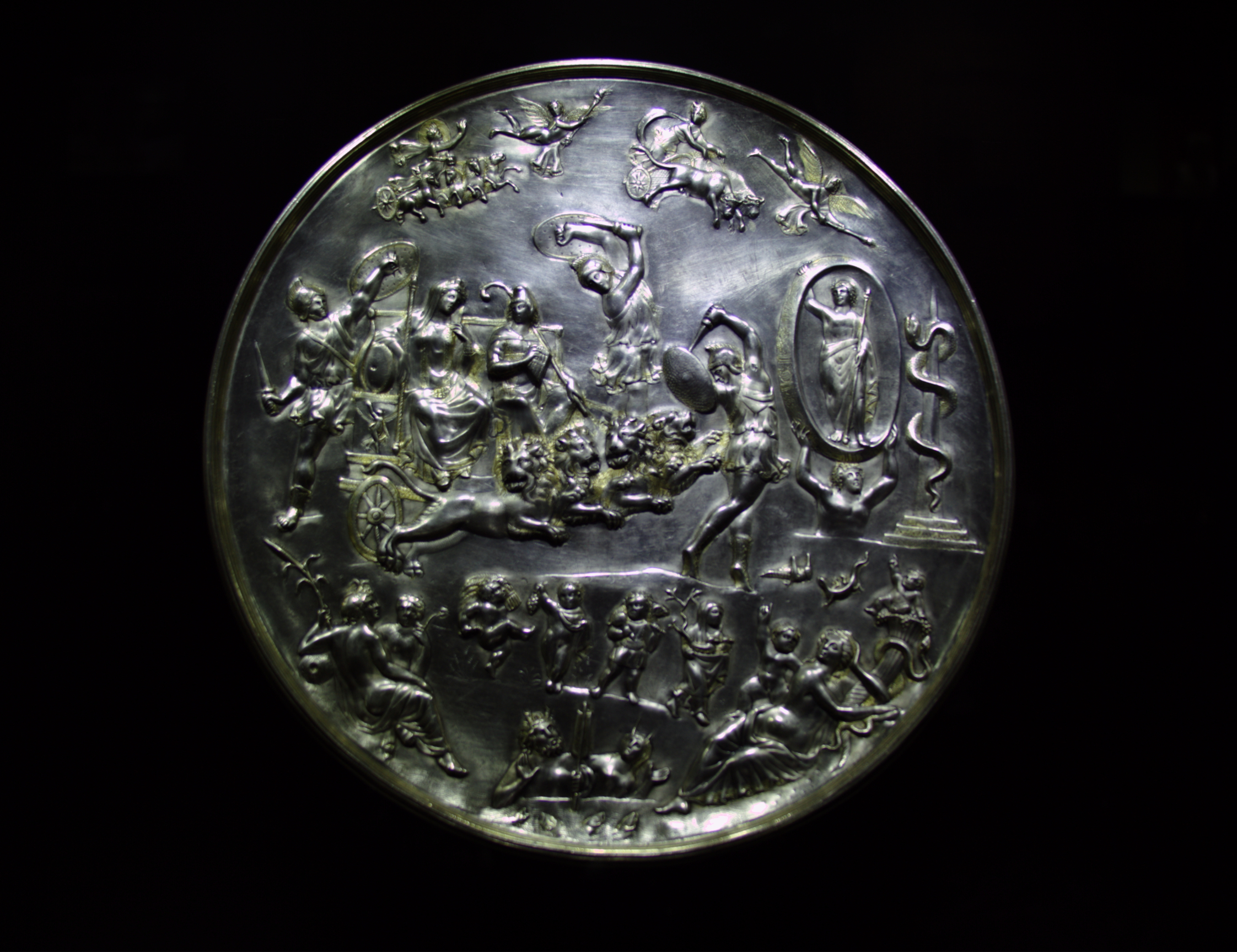 Museo Archeologico - Milan